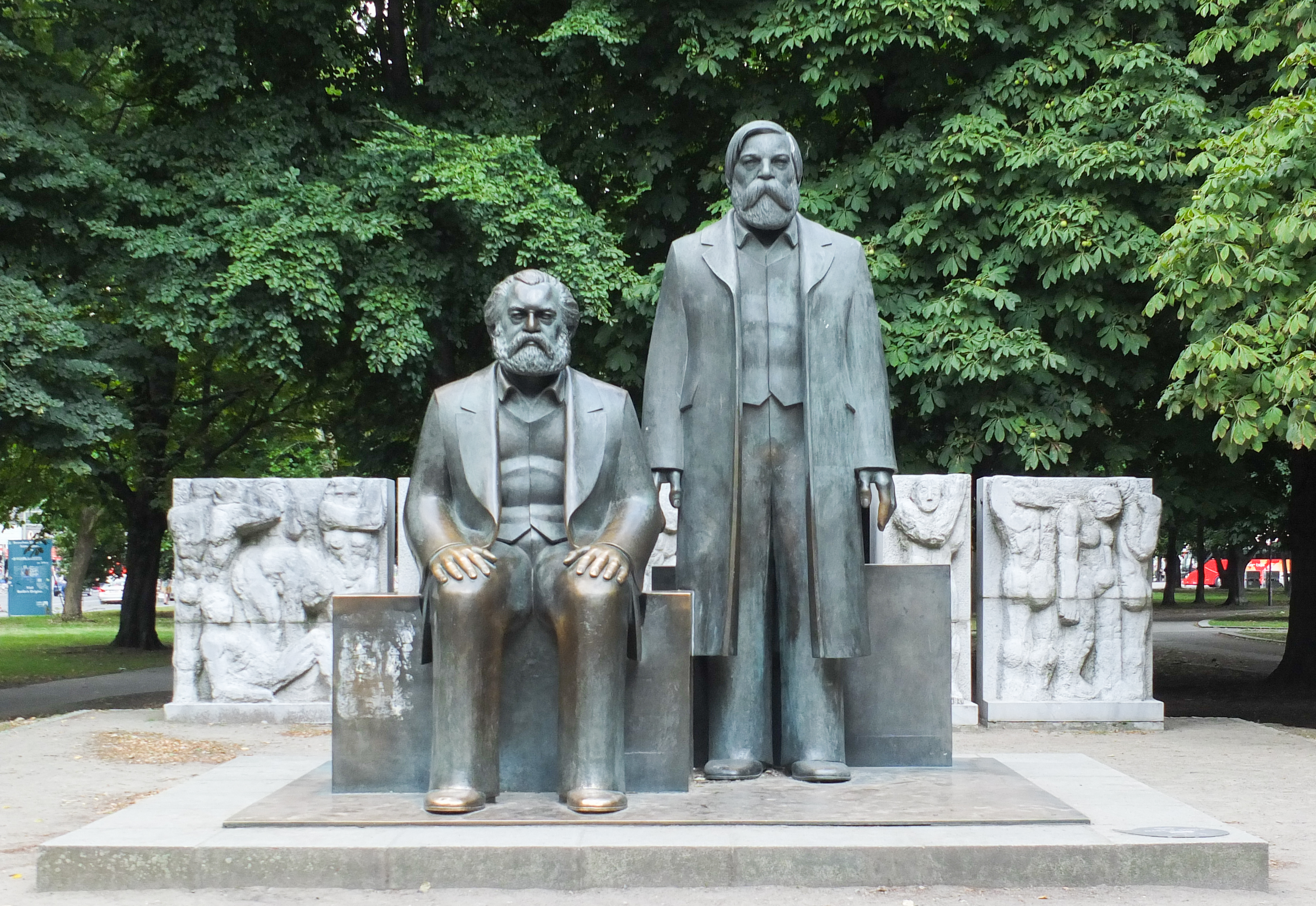 The Marx Engels monument at Schloßplatz, Berlin, Germany (full view) as it is during the works for the extension of the U5 line. Marx sitting, Engels standing.